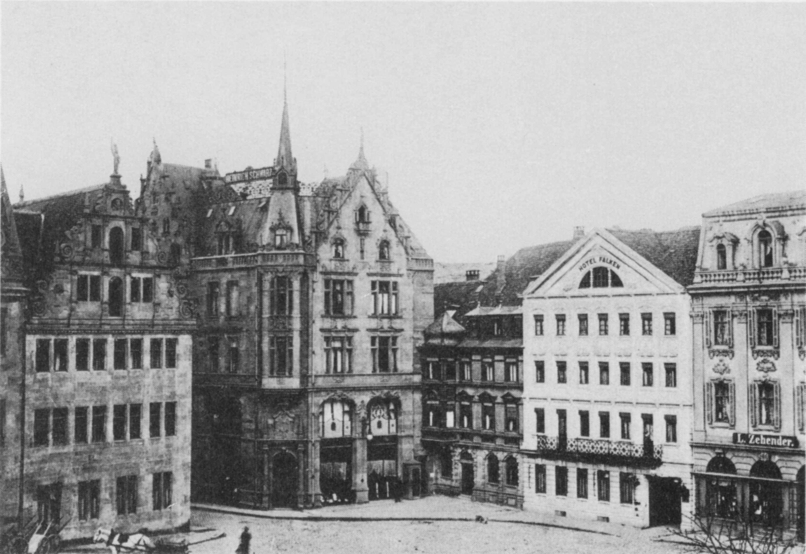 The north-east corner of the Heilbronn market square in 1906